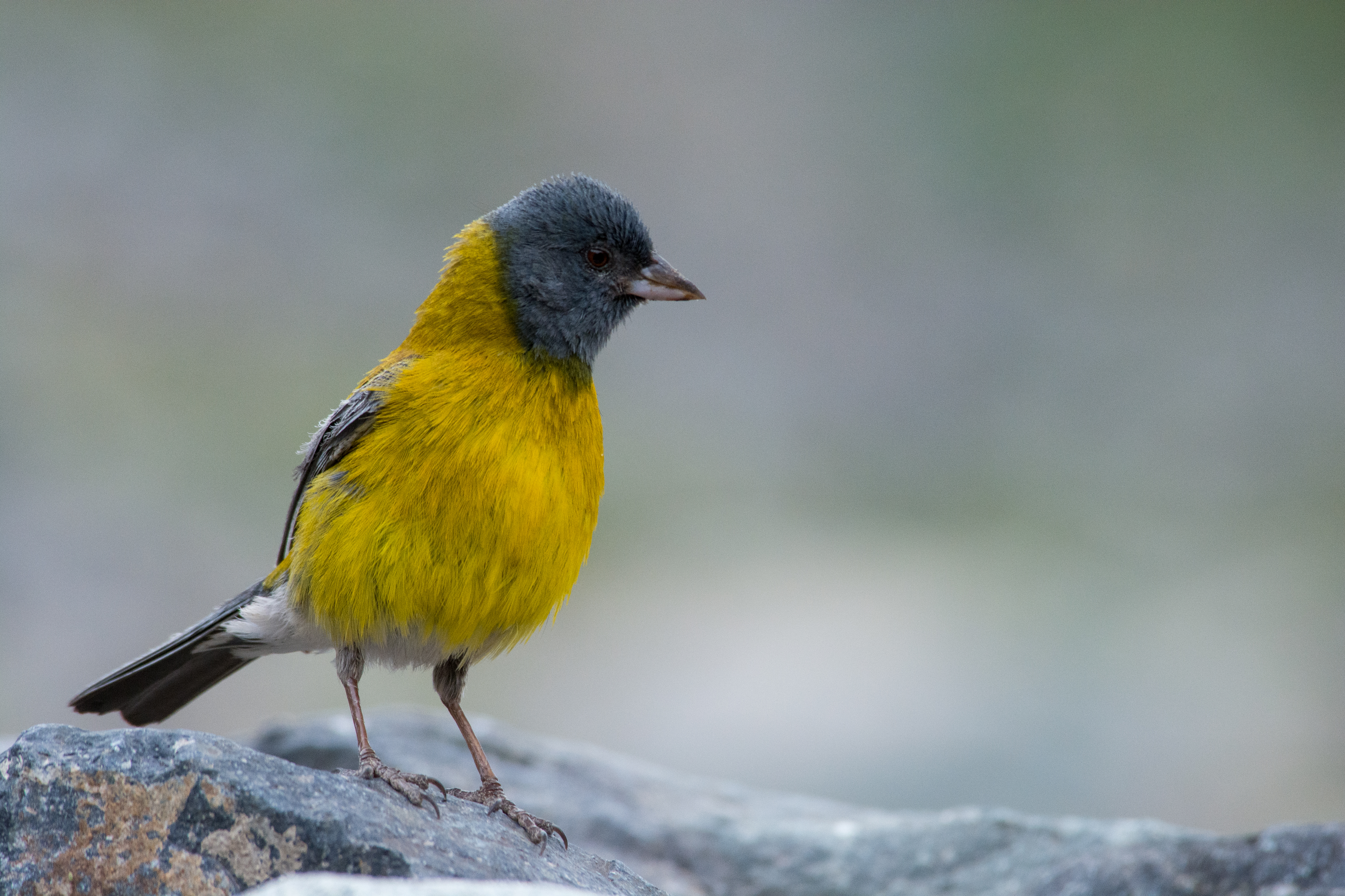 Grey-hooded Sierra-finch